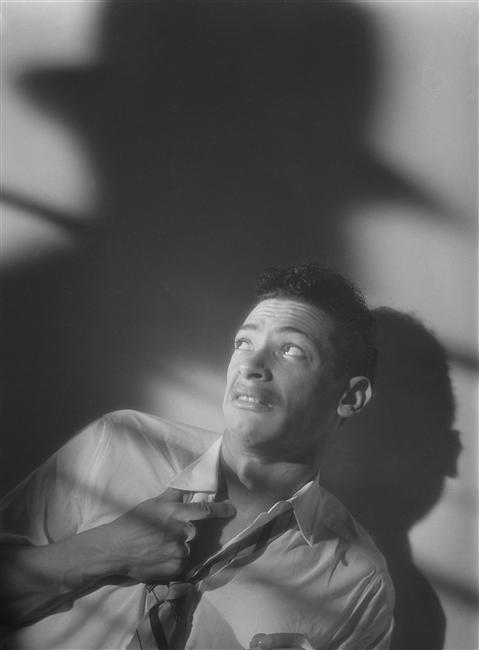 Studio photo